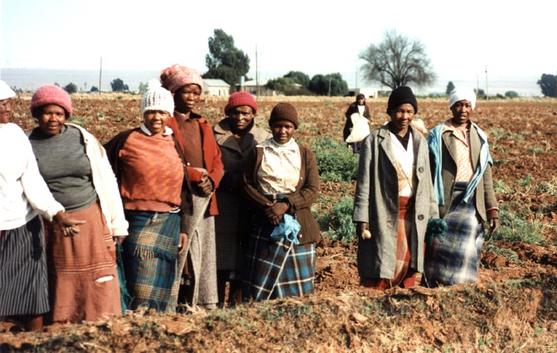 Taken by user:Guinnog